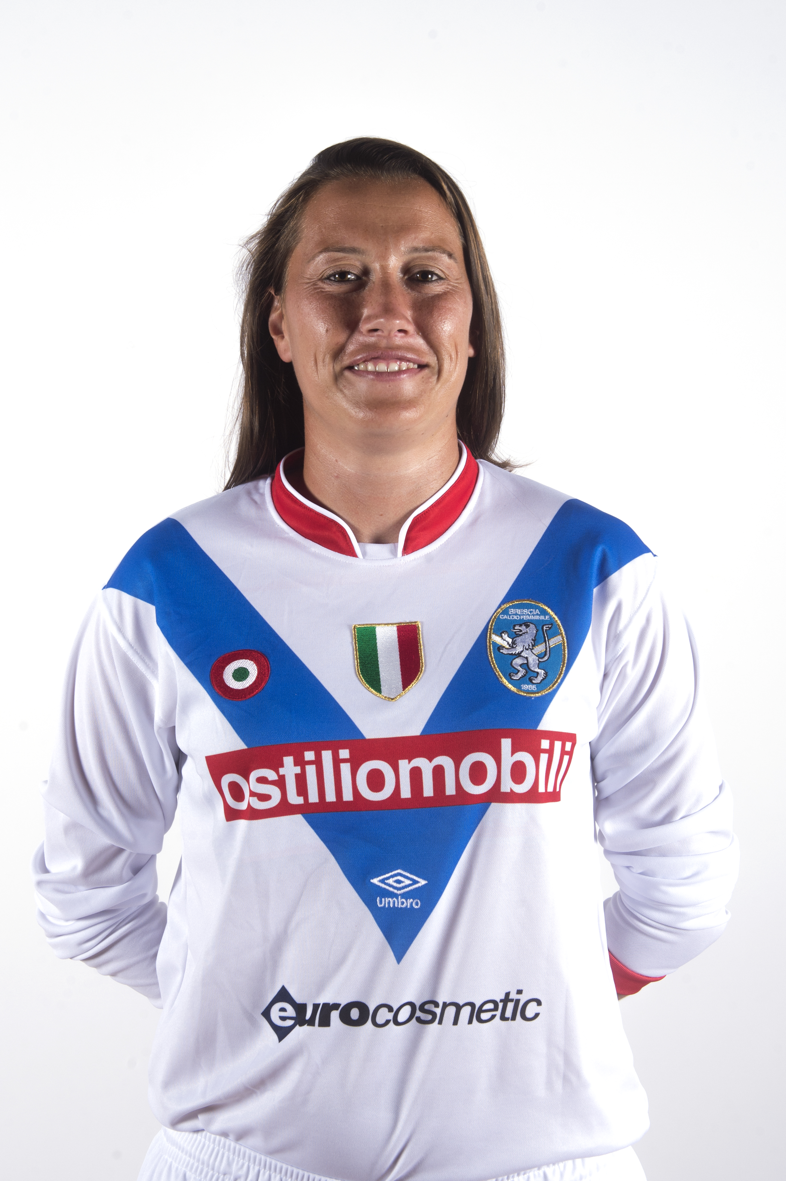 Italian football player Chiara Marchitelli, goalkeeper of Brescia Calcio Women